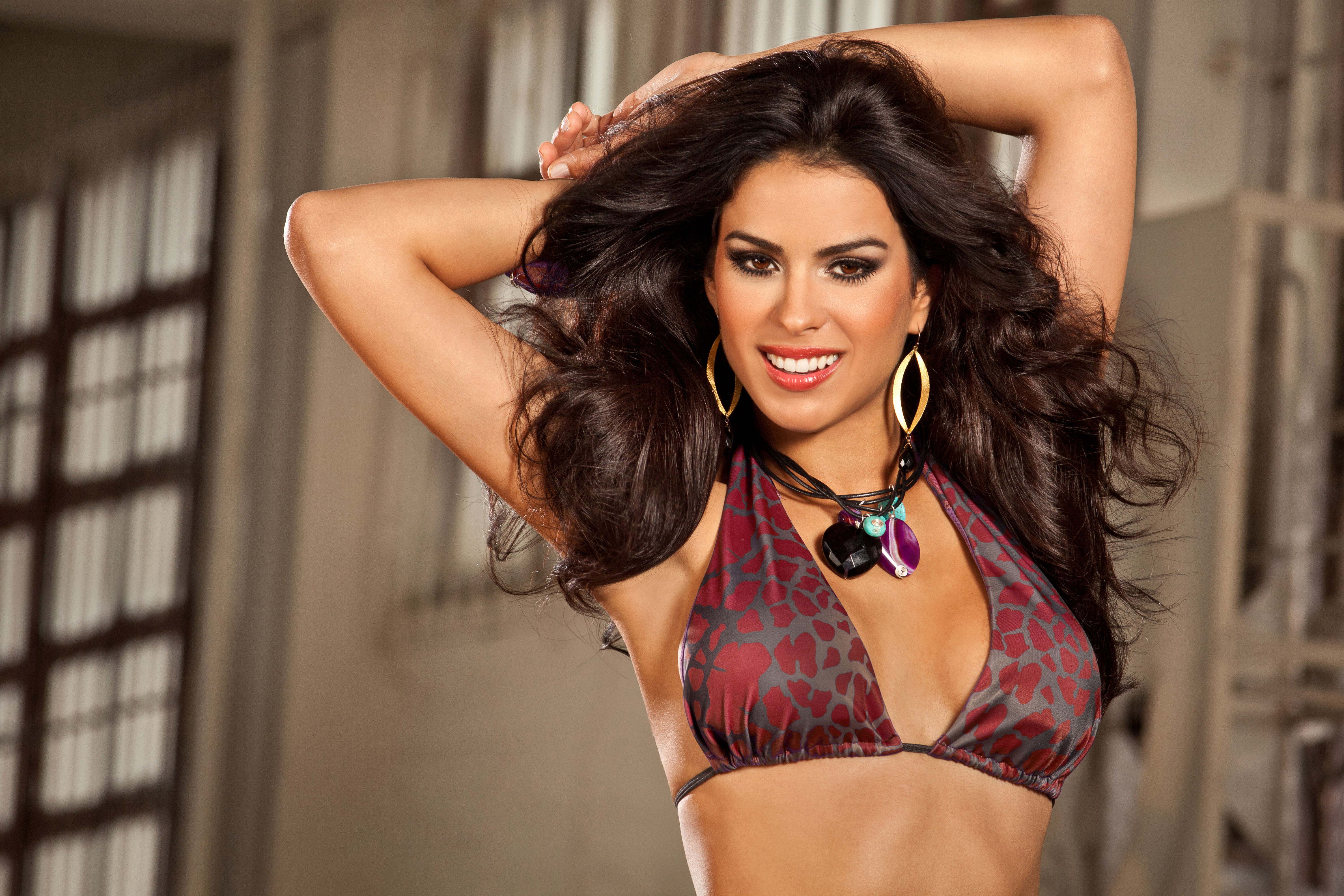 Vanessa de Roide is a beauty pageant titleholder, model and TV host from Puerto Rico and the current Nuestra Belleza Latina 2012. She is a well-known top model in the island. She is the female image of Fox Deportes. Photographed by Kike San Martín in Miami.